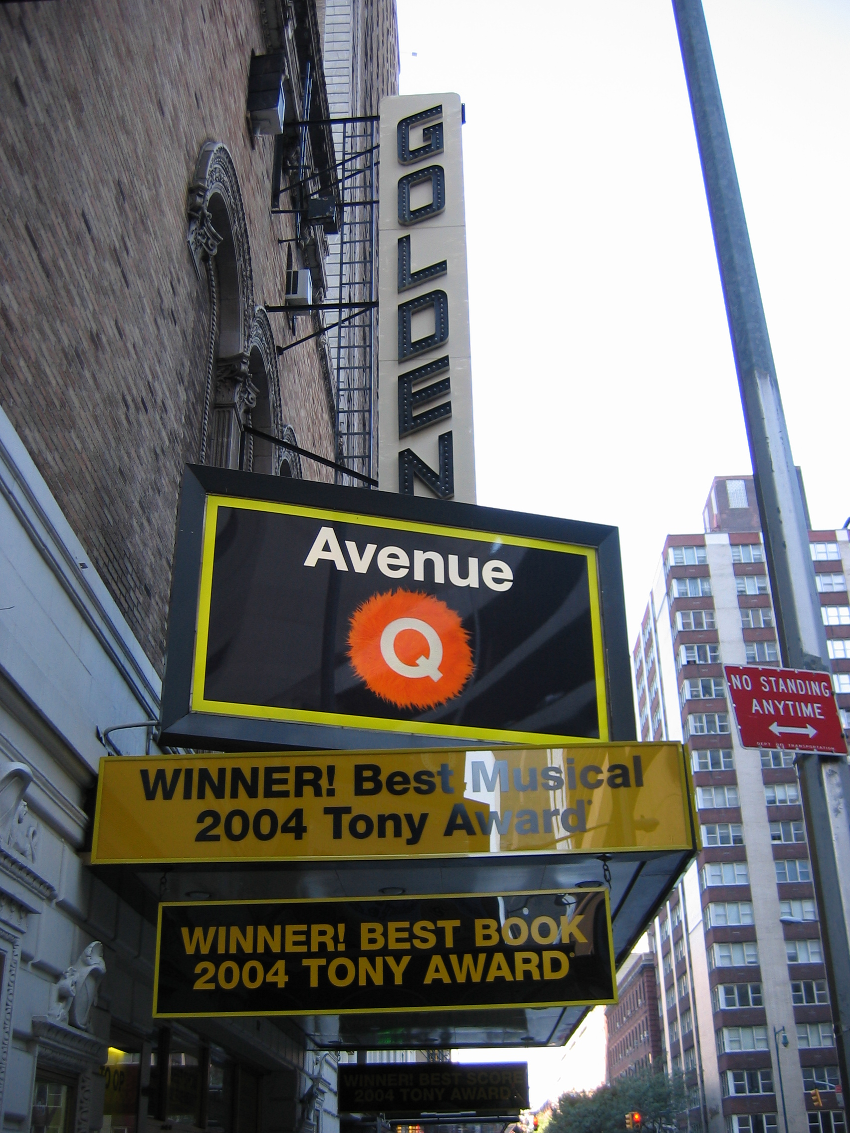 Exterior of Golden Theatre